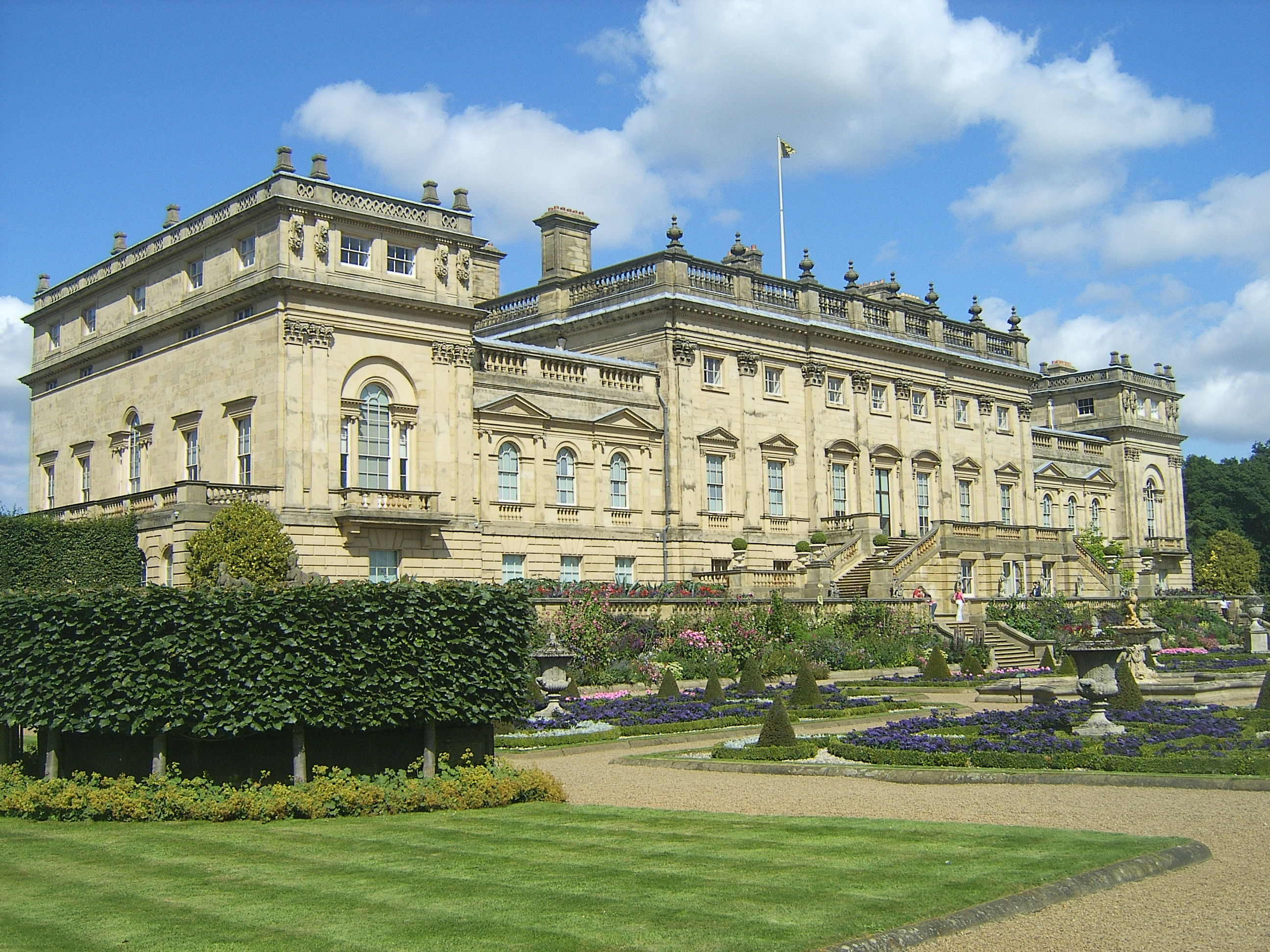 Neoclassical facade of Harewood House seen from the Terrace Garden with parterres.